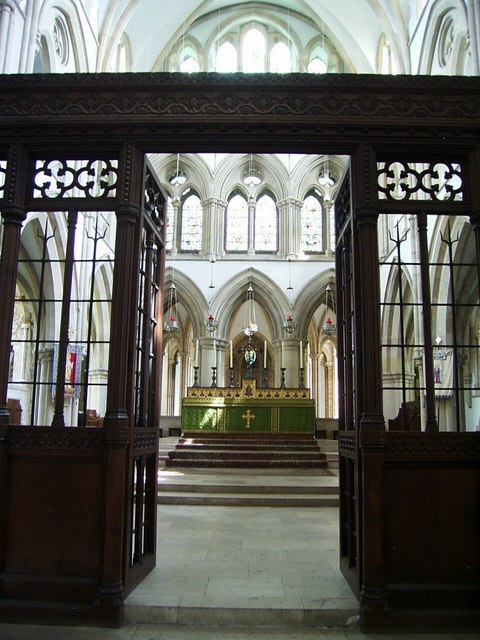 St Wilfrid